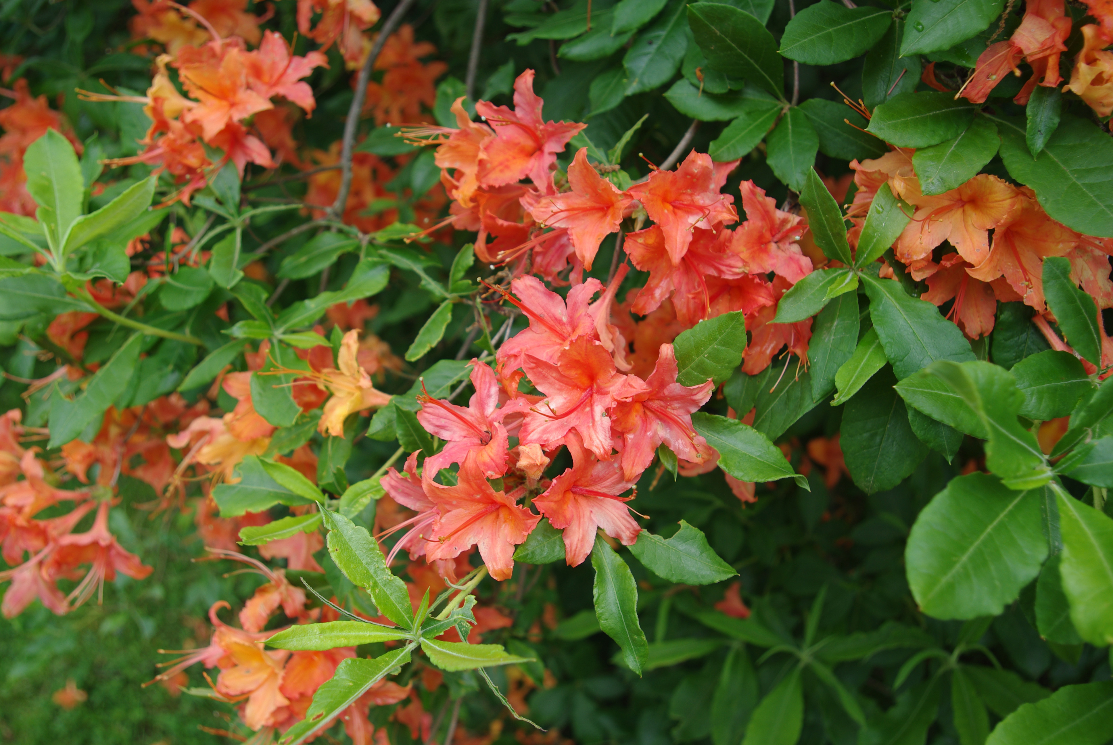 Rhododendron calendulaceum, Arnold Arboretum, Boston, Massachusetts